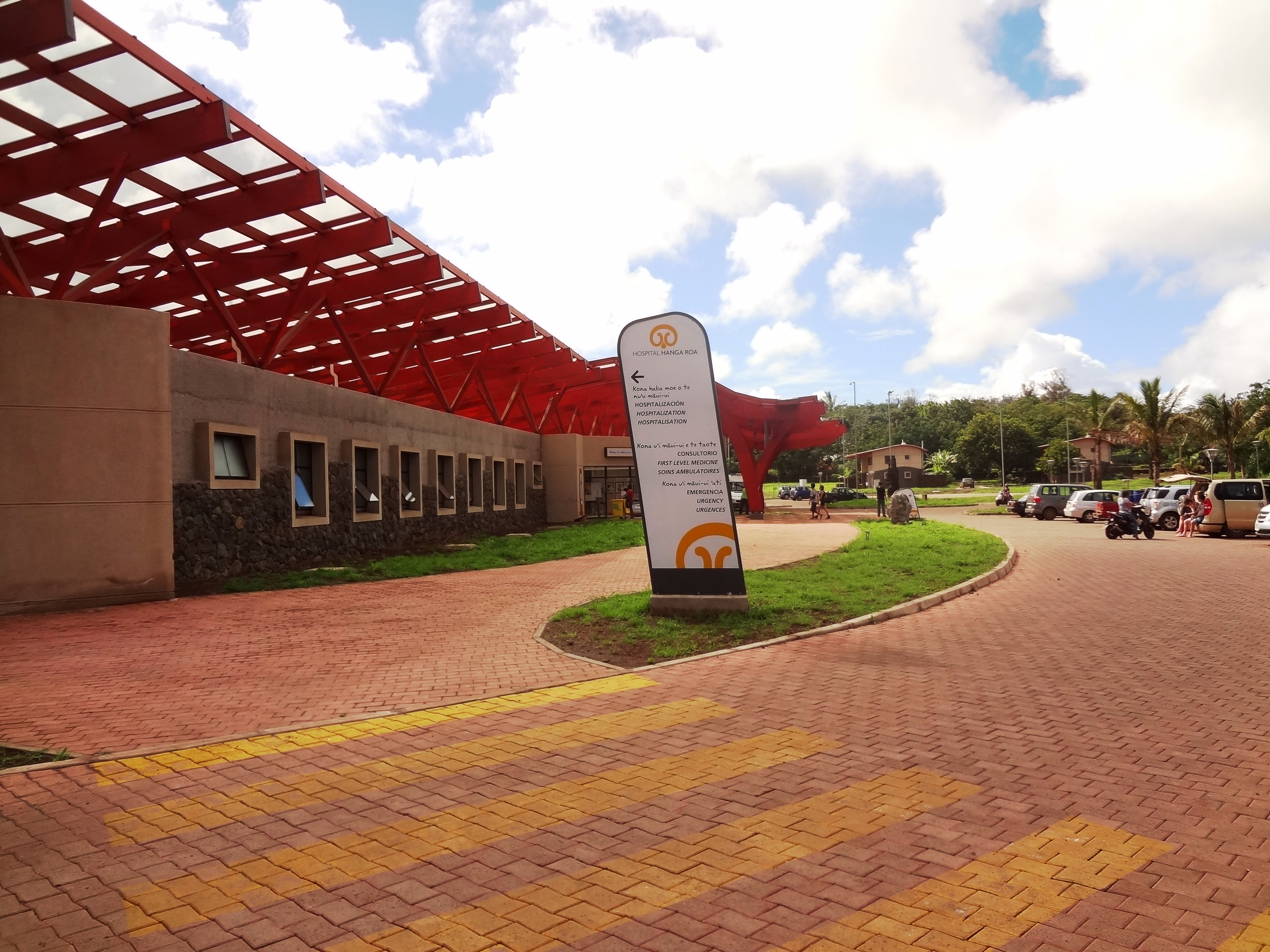 New Hospital of Hanga Roa, Easter Island, Chile